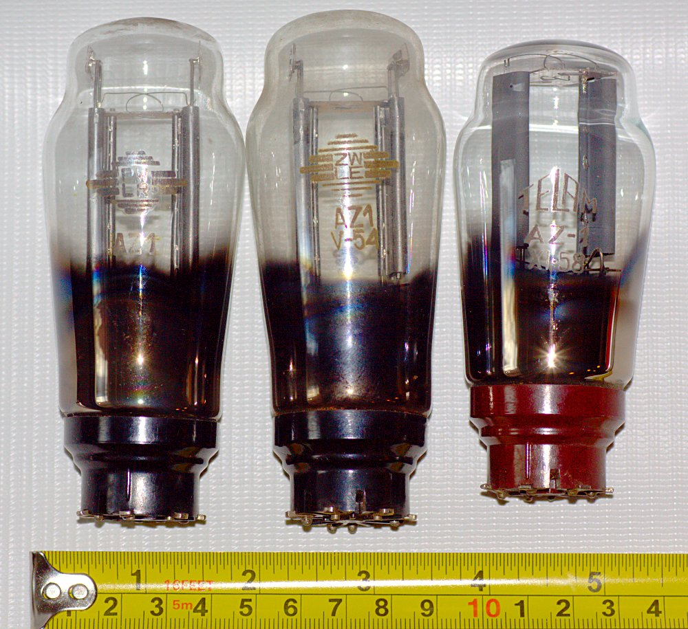 Polish double diodes (tube) AZ1